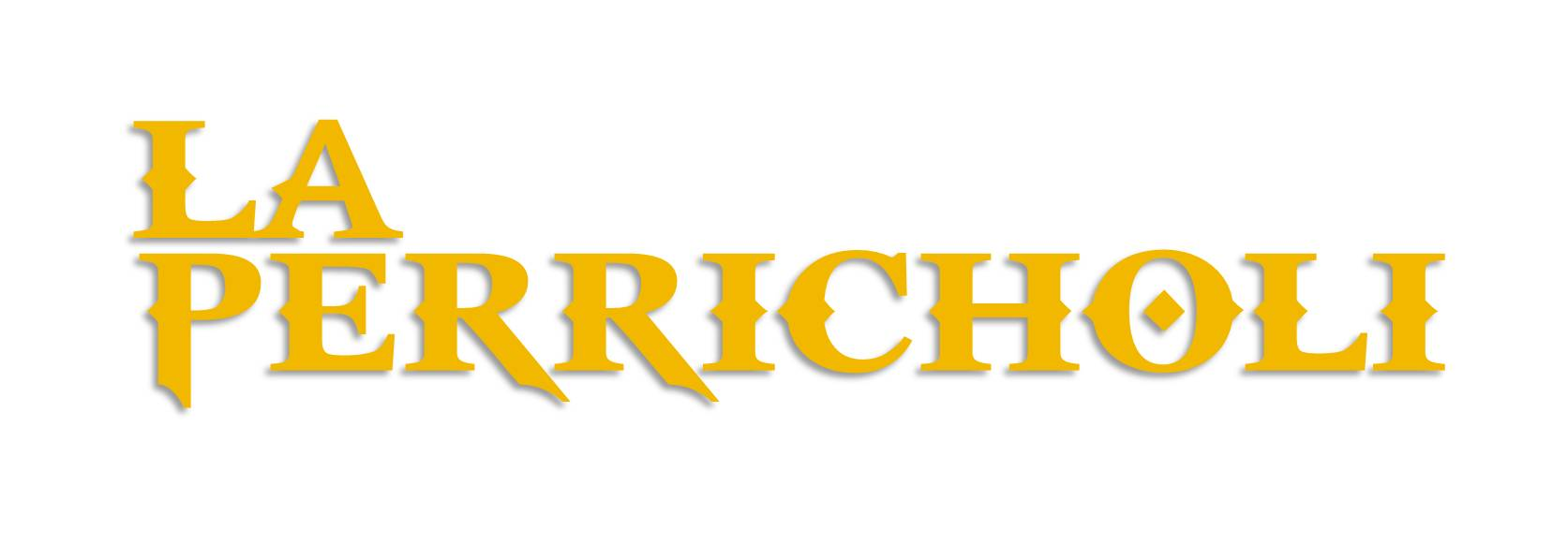 Logo made by me